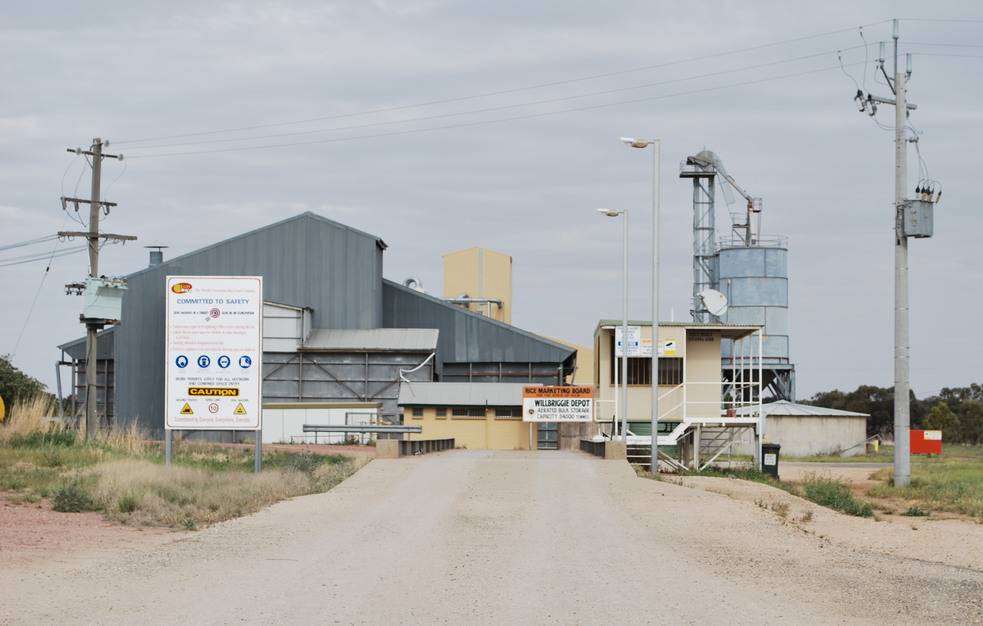 Rice silo at Willbriggie, New South Wales